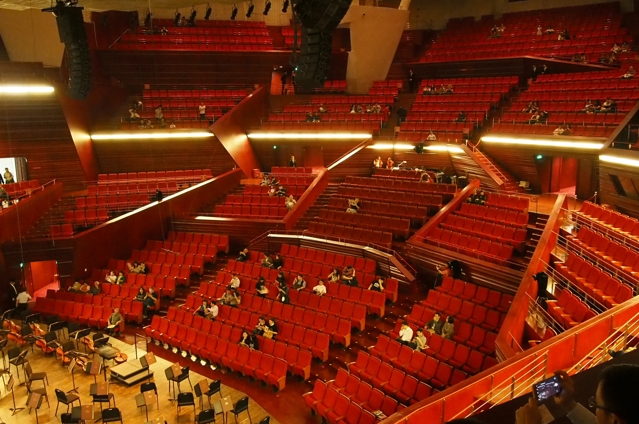 Inside the Shenzhen Concert Hall.